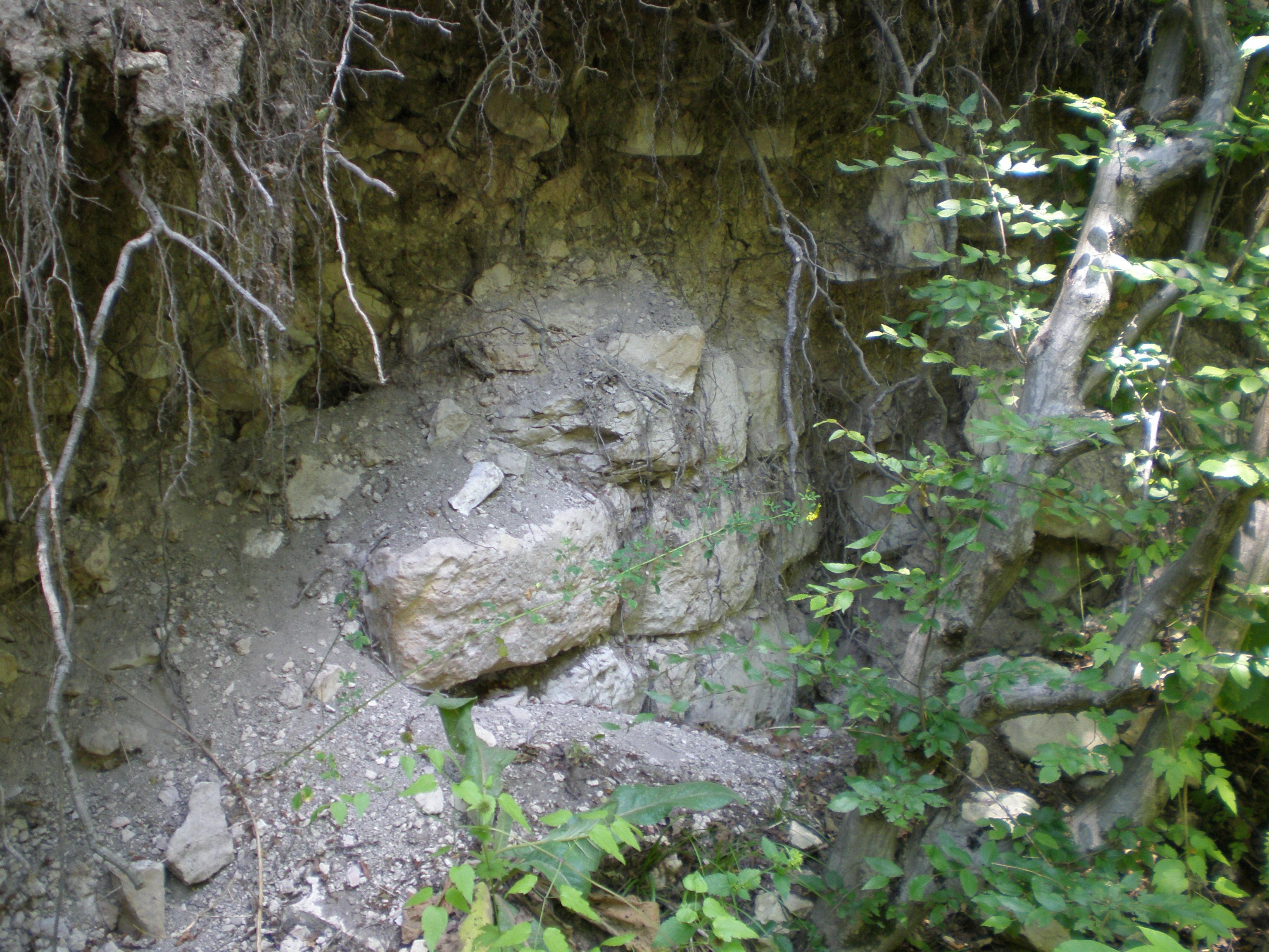 Part of the Dobroselska Fortress in the locality of village Sadina, Bulgaria